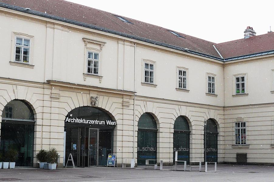 Austria, Vienna, Museumsquartier